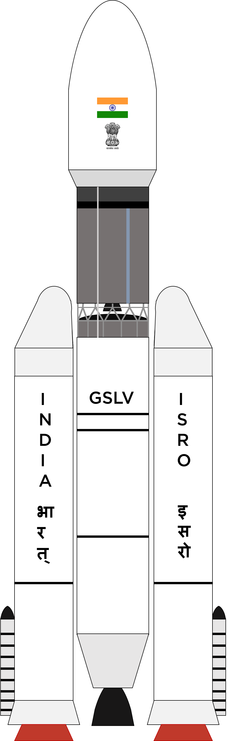 GSLV mark3 rocket